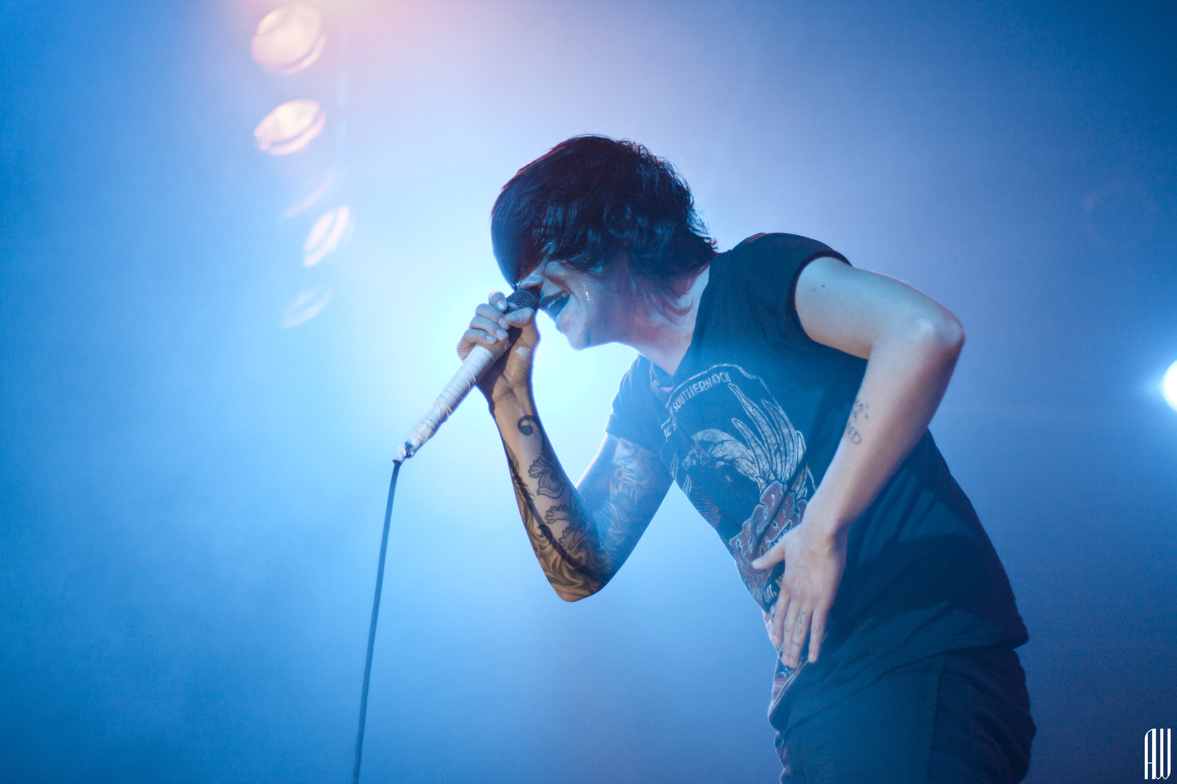 Sleeping With Sirens November 2012